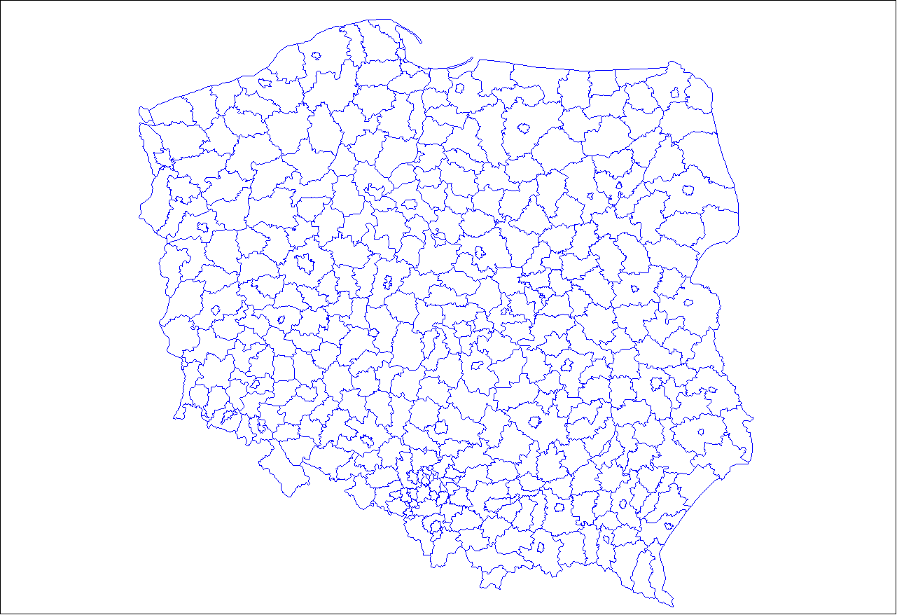 Map of the powiaty (counties) of Poland. Created by Rarelibra 03:07, 30 December 2006 (UTC) for public domain use, using MapInfo Professional v8.5 and various mapping resources.